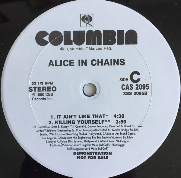 Alice in Chains - We Die Young, EP